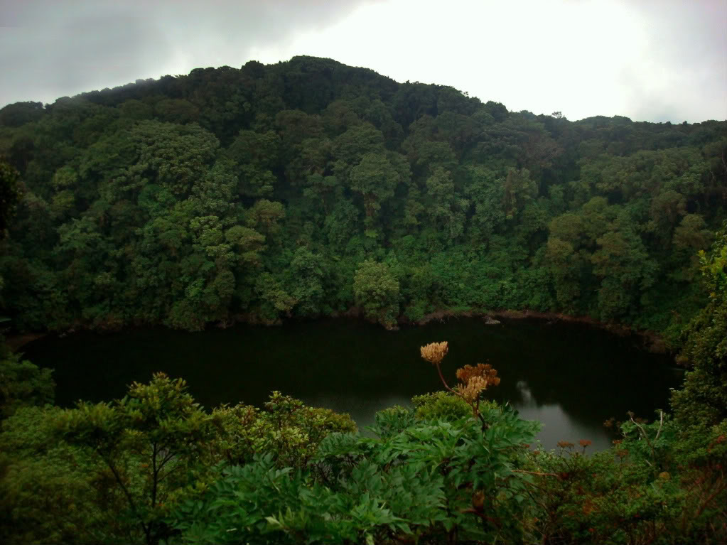 Barva Volcano